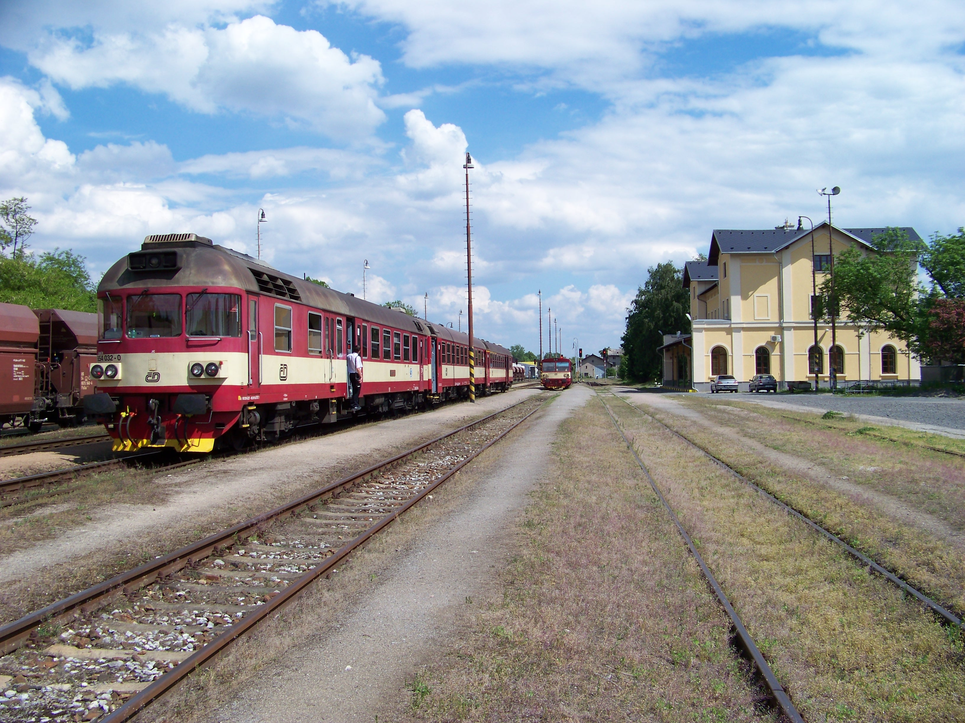 Hostivice, Prague-West District, Central Bohemian Region, the Czech Republic. Train station "Hostivice".